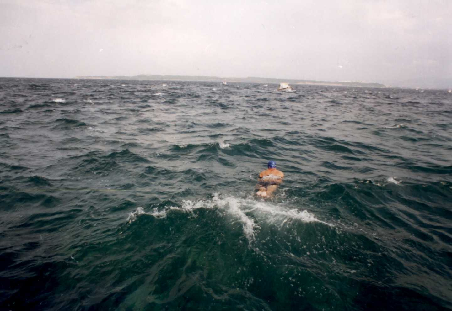 Henry Kuprashvili. Dardanelles. 2002.08.30